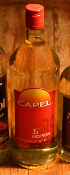 A bottle of CAPEL pisco.